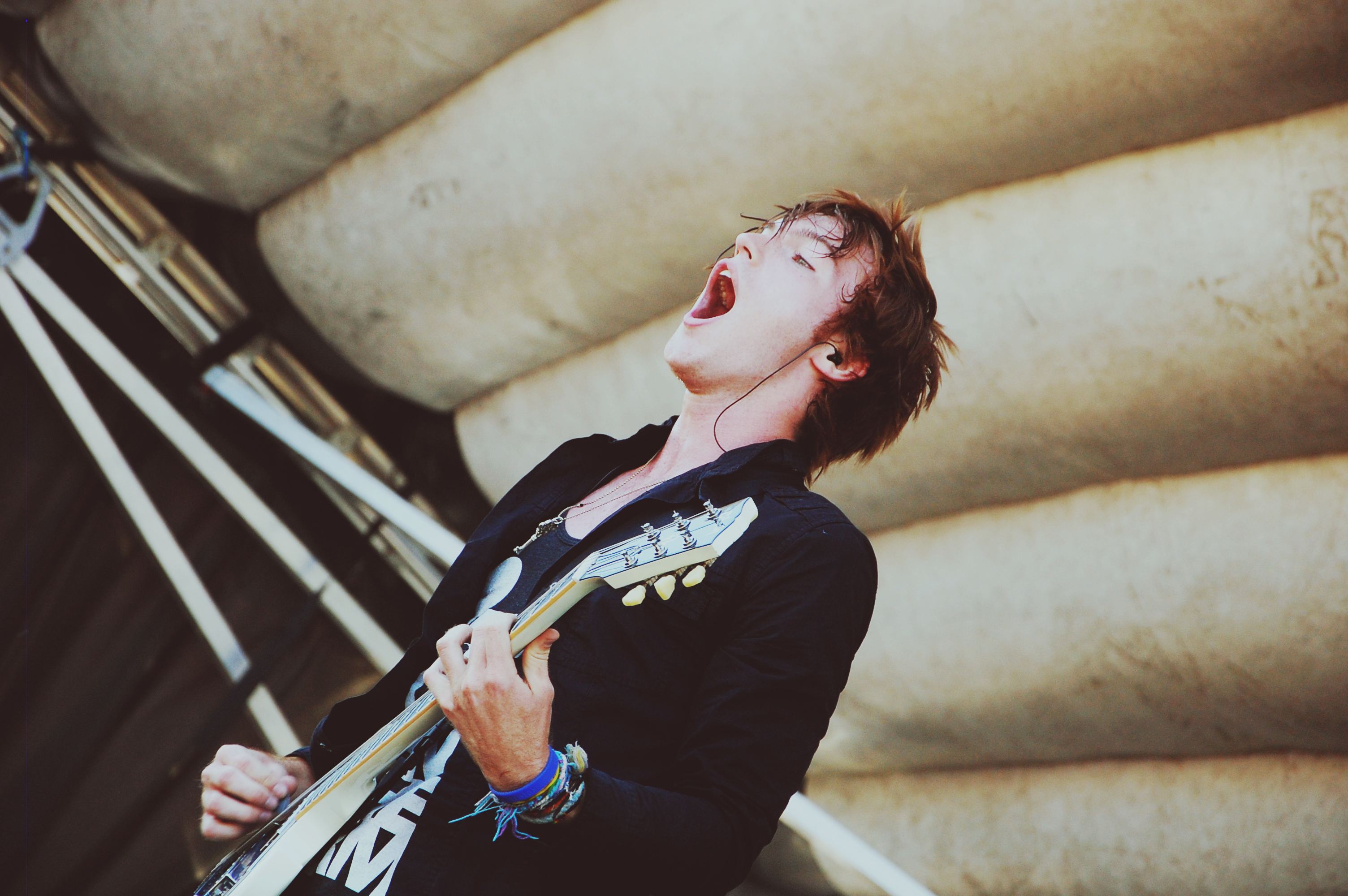 Disco Curtis frontman Tanner Howe performing in Hillsboro, Oregon on the Vans Warped Tour on August 15, 2010.